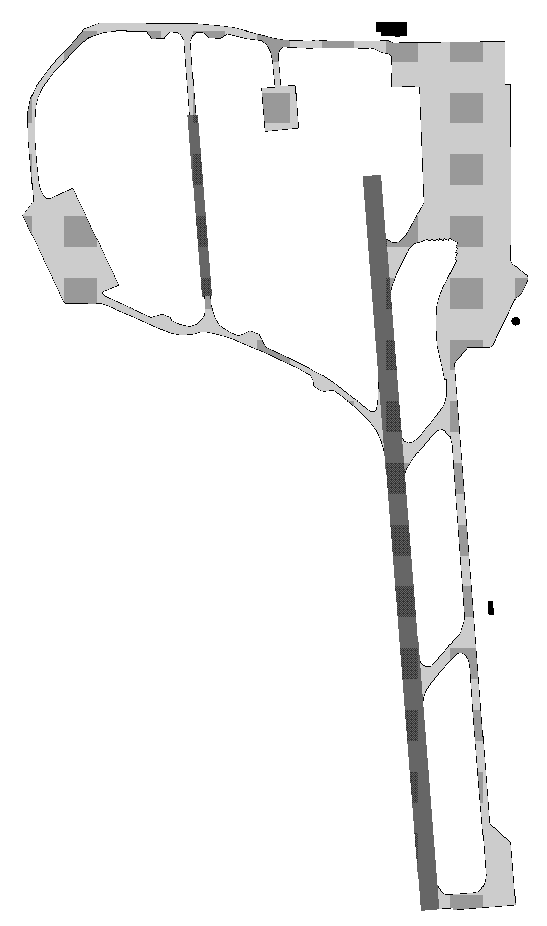 Milano-Linate Airport.